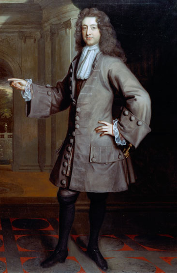 Portrait of William Cowper, 1st Earl Cowper (ca.1665-1723)